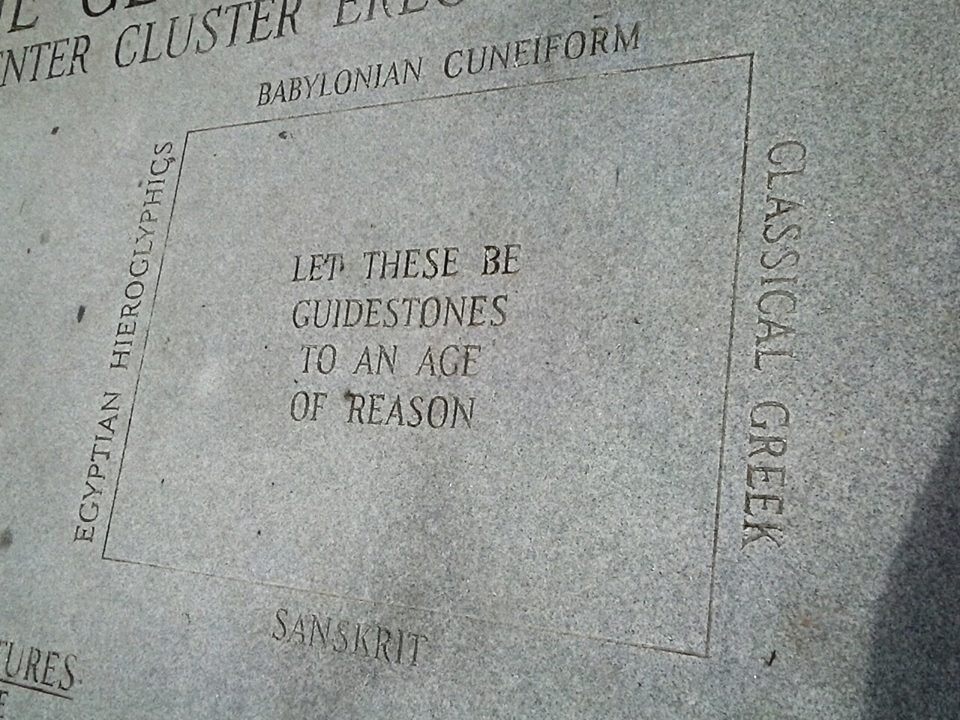 Georgia Guidestones